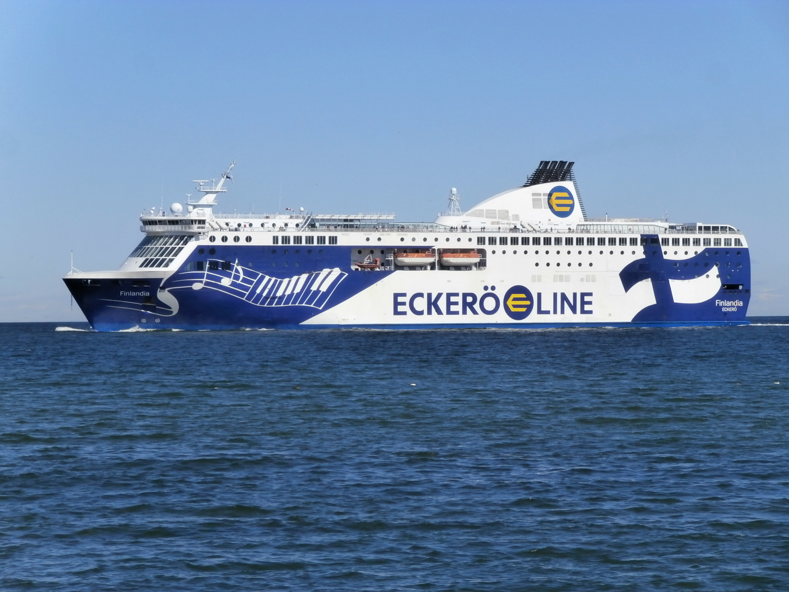 Finlandia arriving at Tallinn 28 May 2015